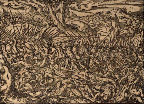 Woodcut depicting the Battle of Ohrid 1464